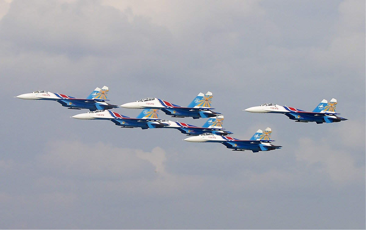 Sukhoi Su-27s of Russian Knights at MAKS in 2003